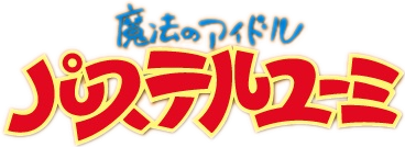 Mahō no idol Pastel Yumi logo